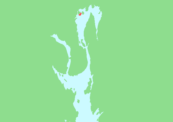 Locator map of Brønnøya, Akershus, Norway